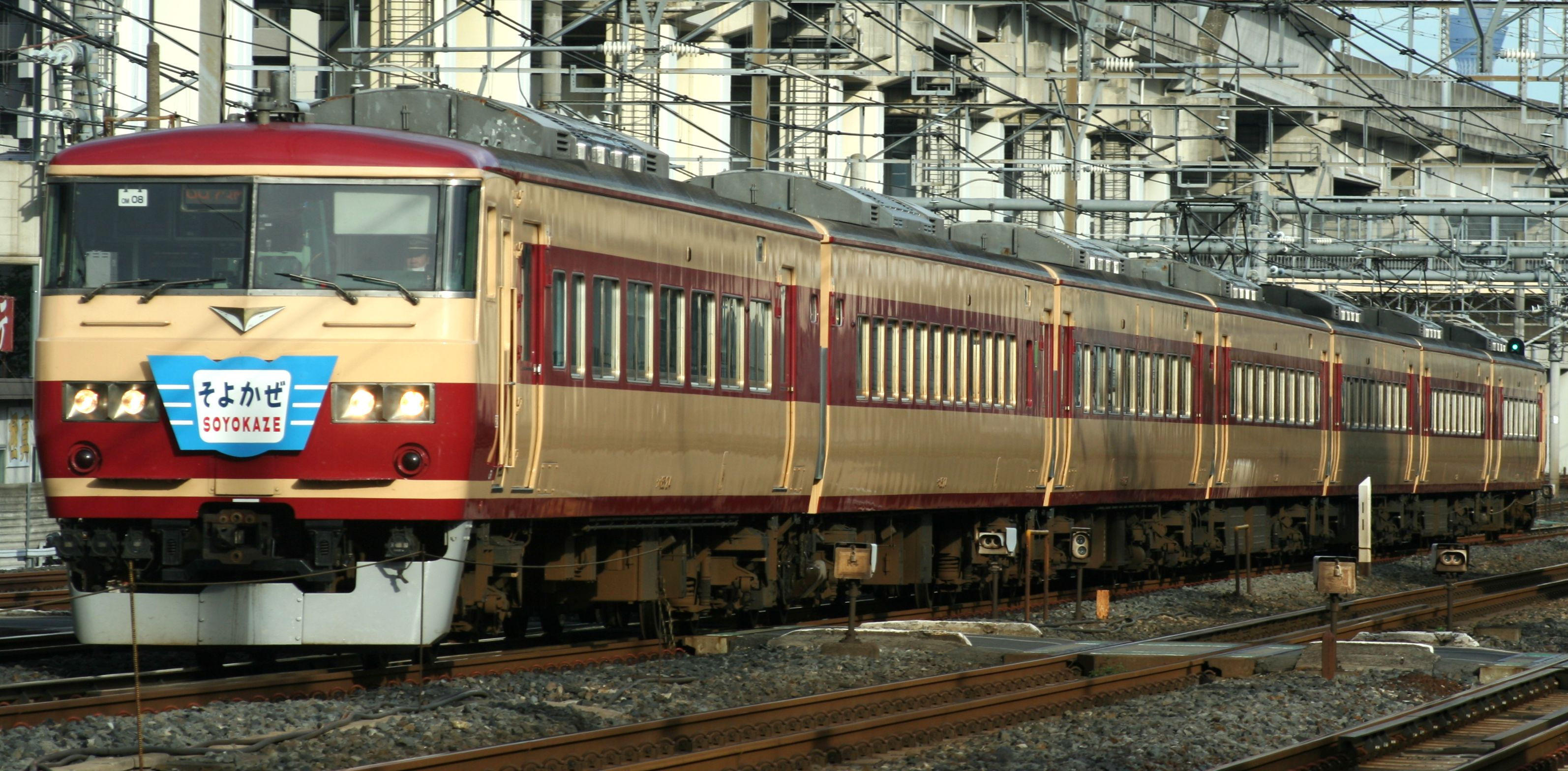 Reliveried JR East 185 series EMU set OM8 on a special Soyokaze service near Higashi-Jujo Station